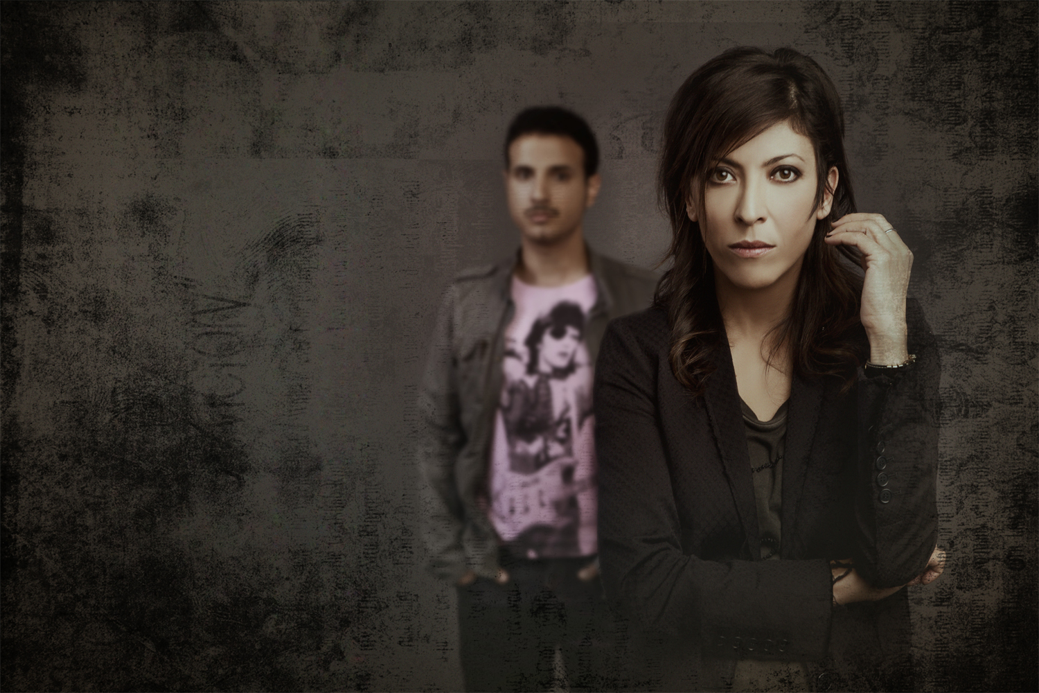 Singer Asi Levi and musician Eliran Levi in the single "Itakh" ("With You") from the project "Panasim".